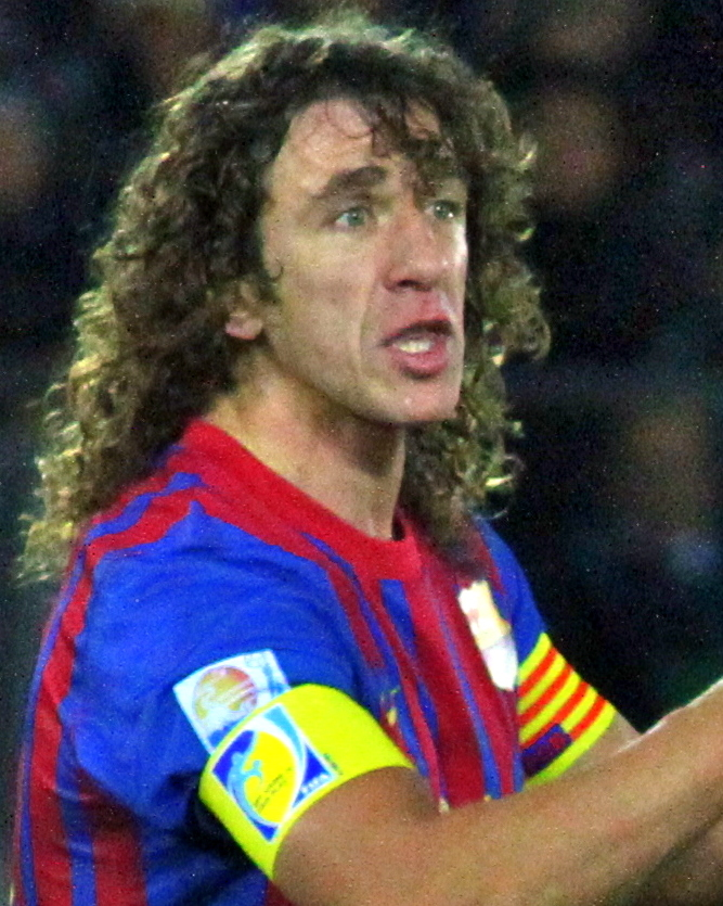 Carles Puyol - FC Barcelona, Santos best 2011.